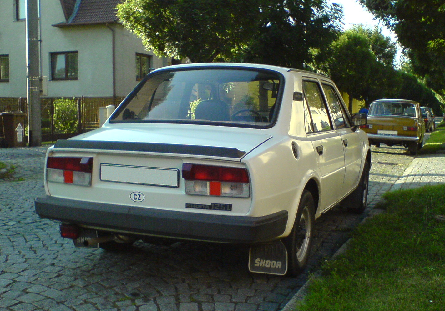 Skoda 125L (1989)